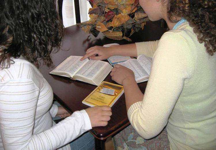 Home bible study with the help of a bible teacher. The yellow book seen in the photo is What Does the Bible Really Teach?.